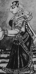 Depiction of the goddess Aditi. She's a Hindu deity.